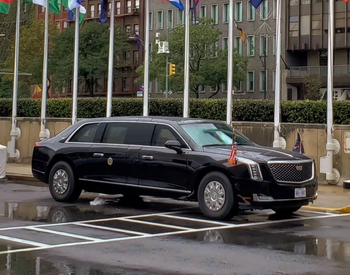 Cadillac Presidential Limousine (2018) in front of the United Nations headquarters in New York, 25 September 2018